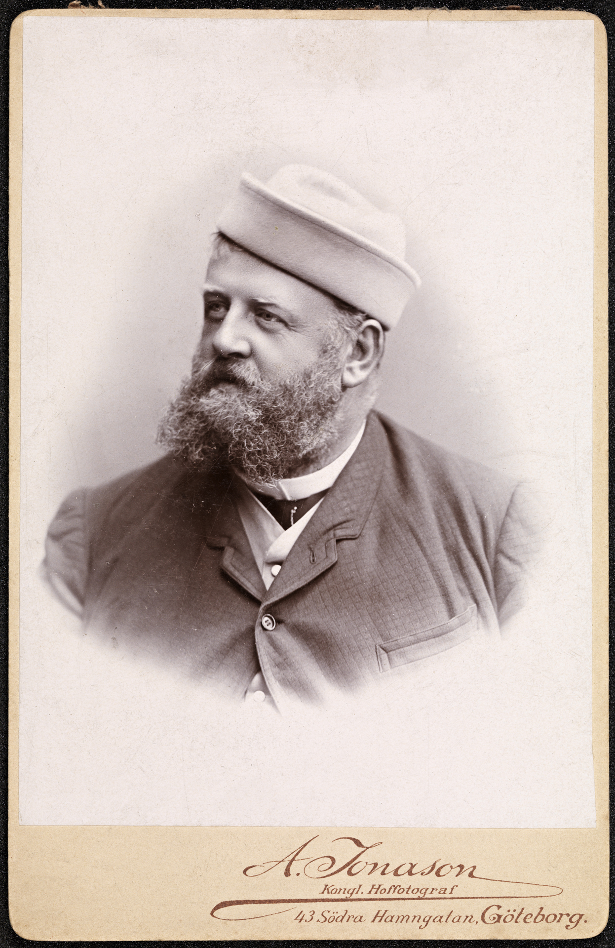 Tittel / Title: Portrett av Frits Thaulow (1847-1906) Motiv / Motif: Kabinettkort Dato / Date: ukjent / unknown Fotograf / Photographer: A. Jonason (Göteborg) Sted / Place: Sverige, Gøteborg Eier / Owner Institution: Nasjonalbiblioteket / National Library of Norway Lenke / Link: Bildesignatur / Image Number: blds_02446